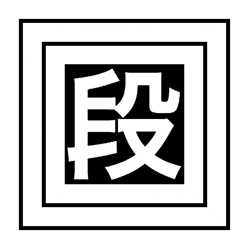 Japanese family crest "Mimasu no naka ni Dan-no-ji", three volume measuring boxes (masu) stacked, carrying a kanji "段" (dan) in the center